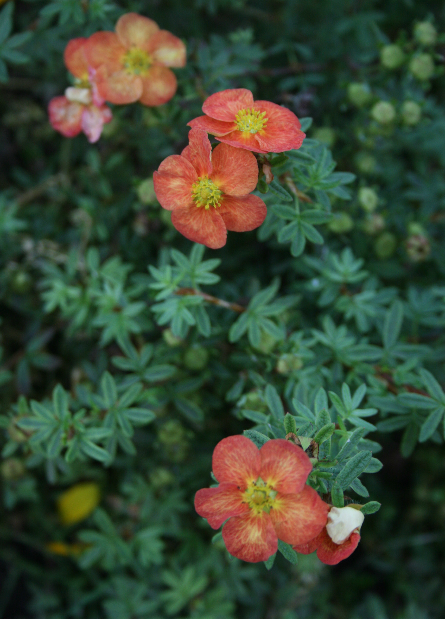 A Dasiphora fruticosa cultivar, photographed in Plattfields park, Manchester (UK)